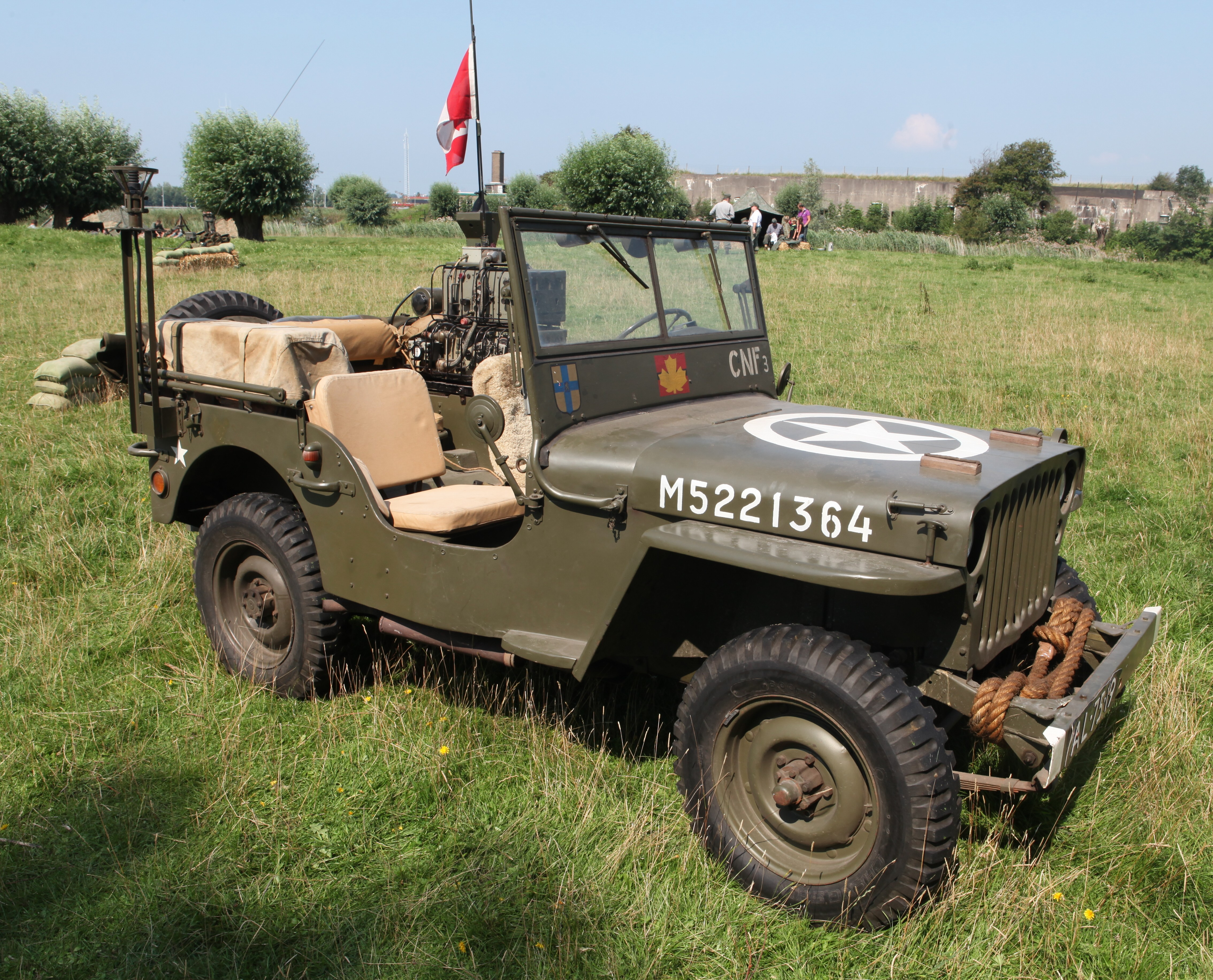 world war II Willys-MB Jeep